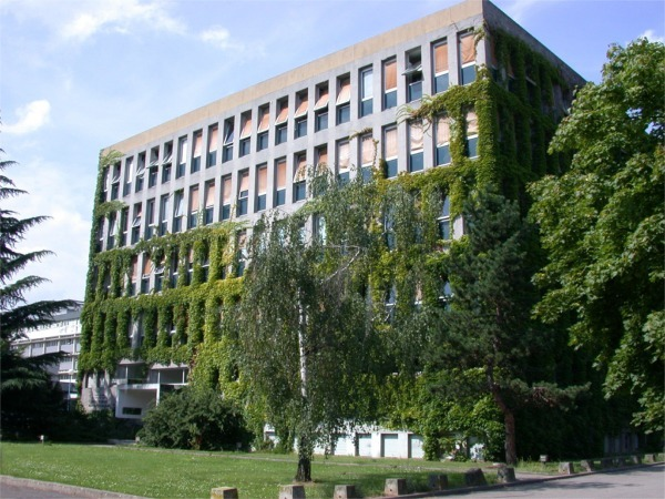 Front View of the Institut de Biologie Moleculaire et Cellulaire.